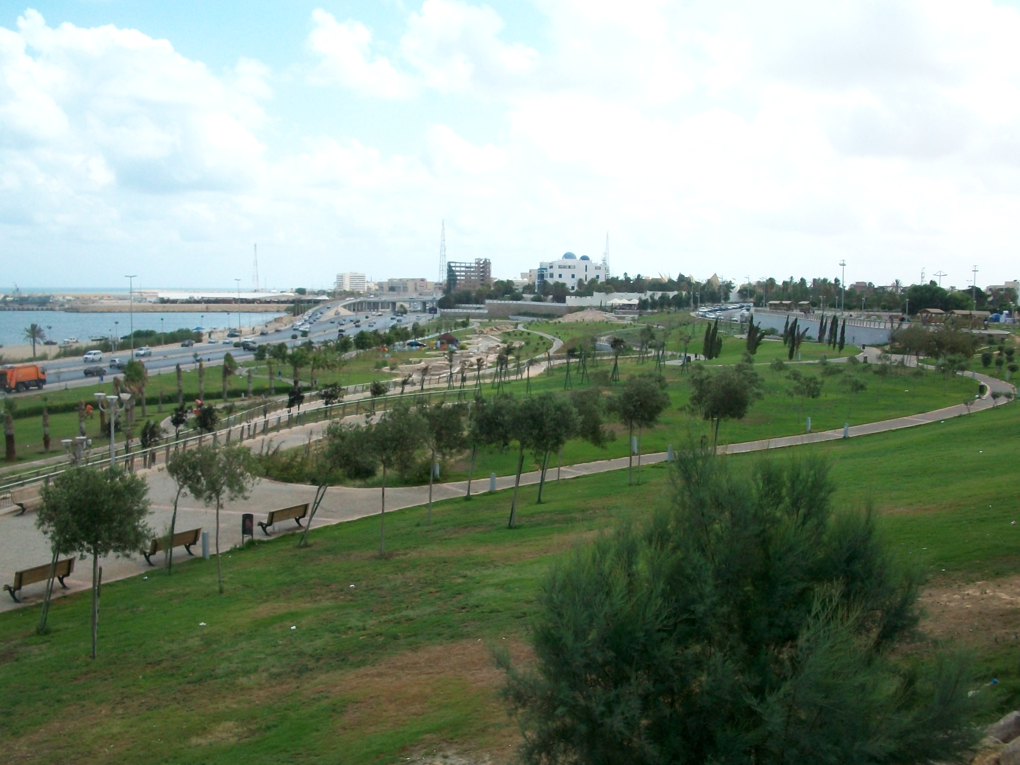 Tripoli Beach Park in the Libyan capital Tripoli.